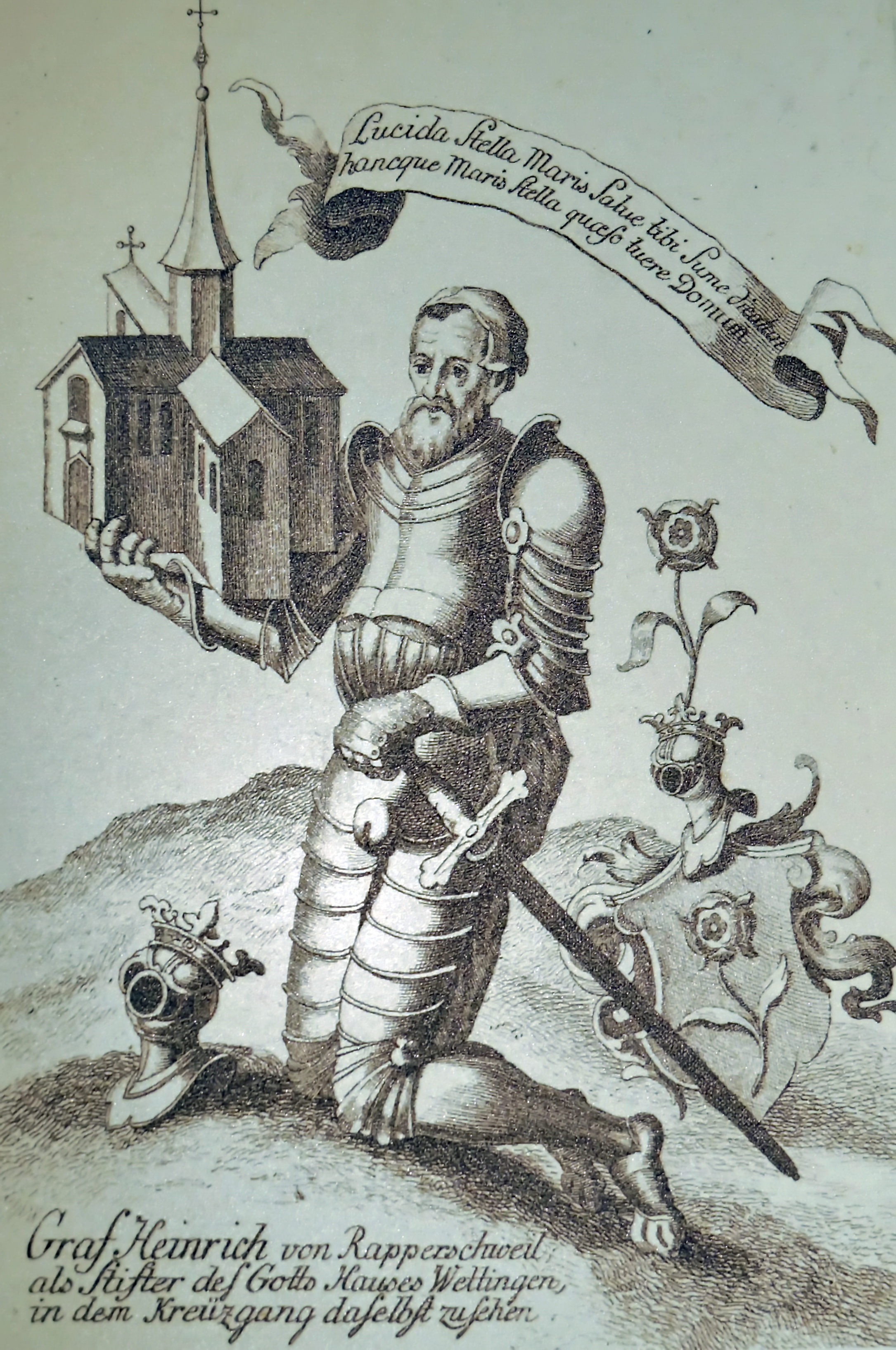 Collection of the Stadtmuseum) in Rapperswil (Switzerland)